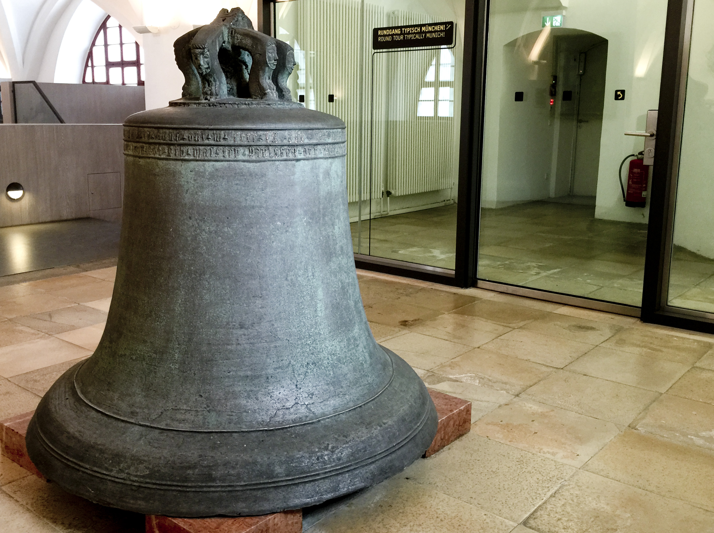 Guldein Kron Rosenkranz bell cast 1452, Tone c1 since 1929 part of the exhibition at the city of munich museum